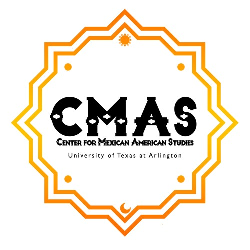 Logo, Center for Mexican American Studies at The University of Texas at Arlington